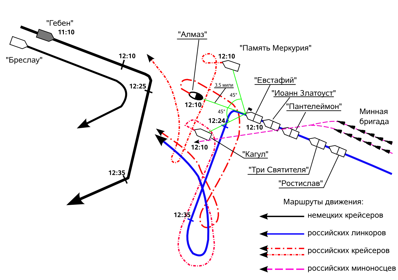 Plan of the Sarych cap battle (Бой у мыса Сарыч) in 1914.